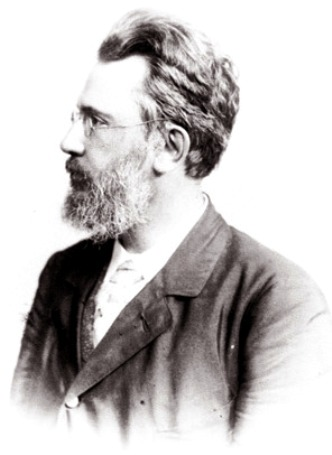 Photo of russian chess master Emanuel Schiffers